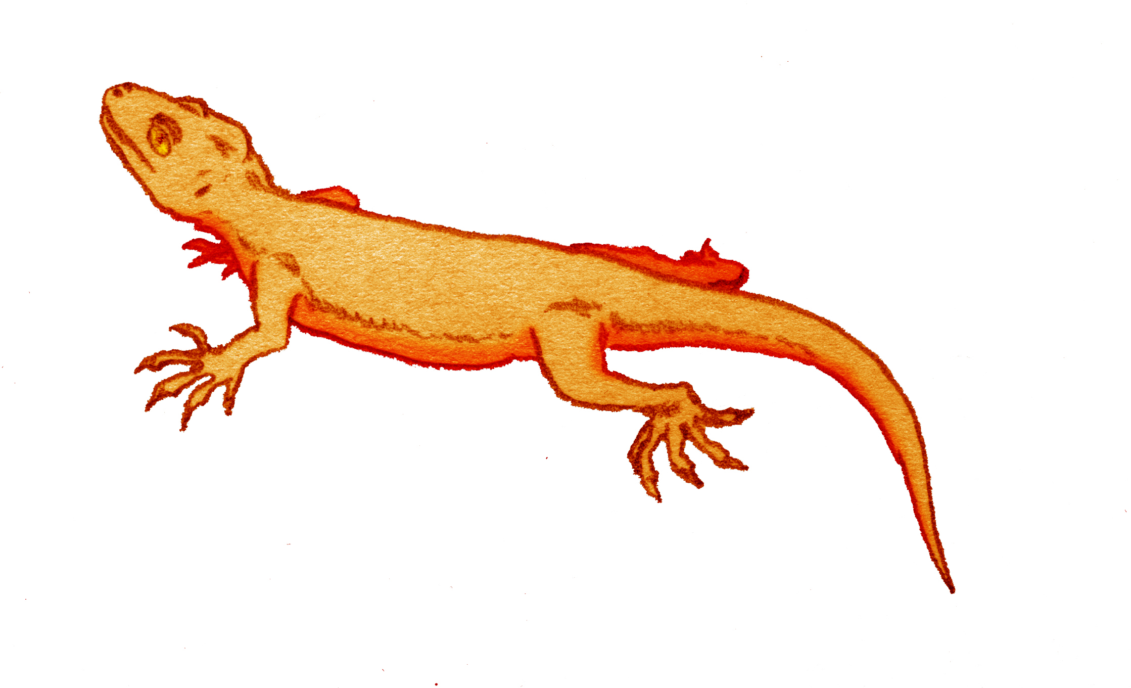 Restoration of Ardeosaurus, an extinct lizard